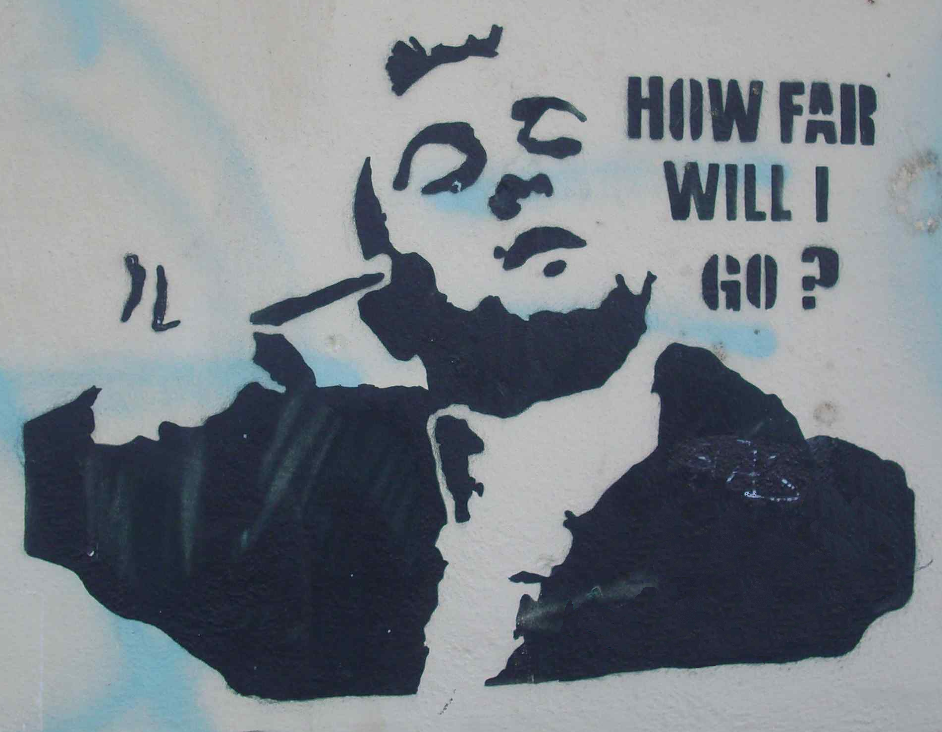 Stencil of Travis Bickle ("Taxi Driver") in Regensburg, Germany.